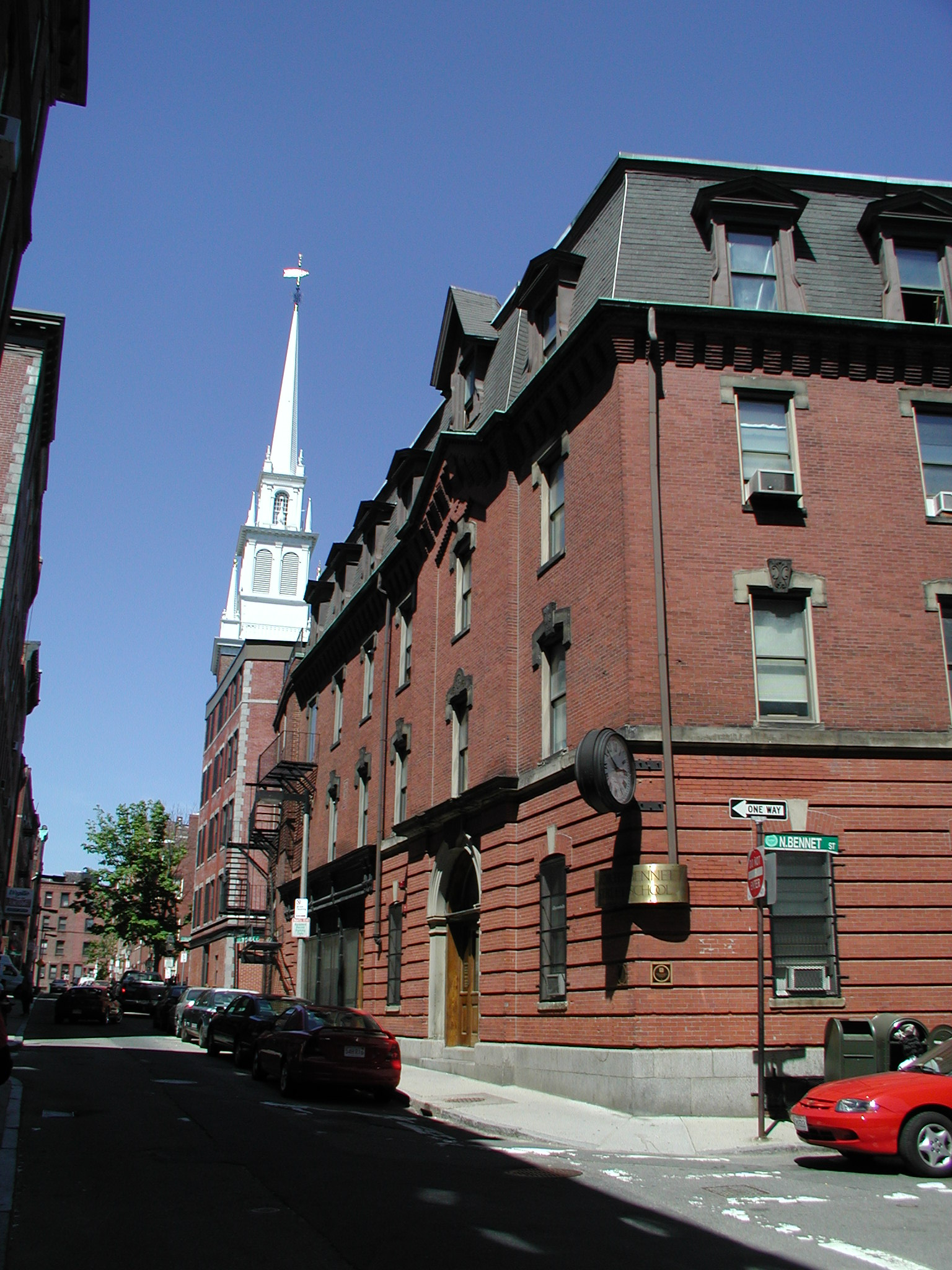 North Bennet Street School with the Old North Church in the background.